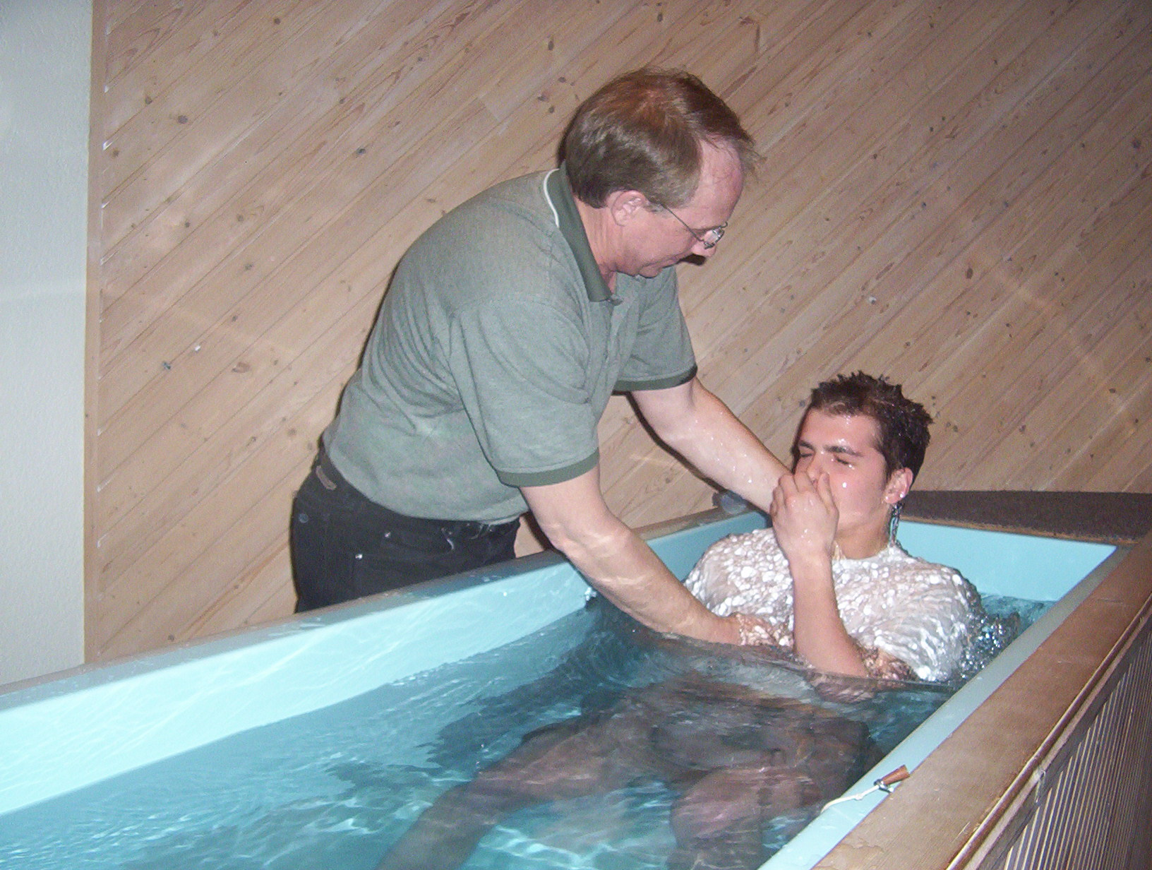 Adult baptism, USA